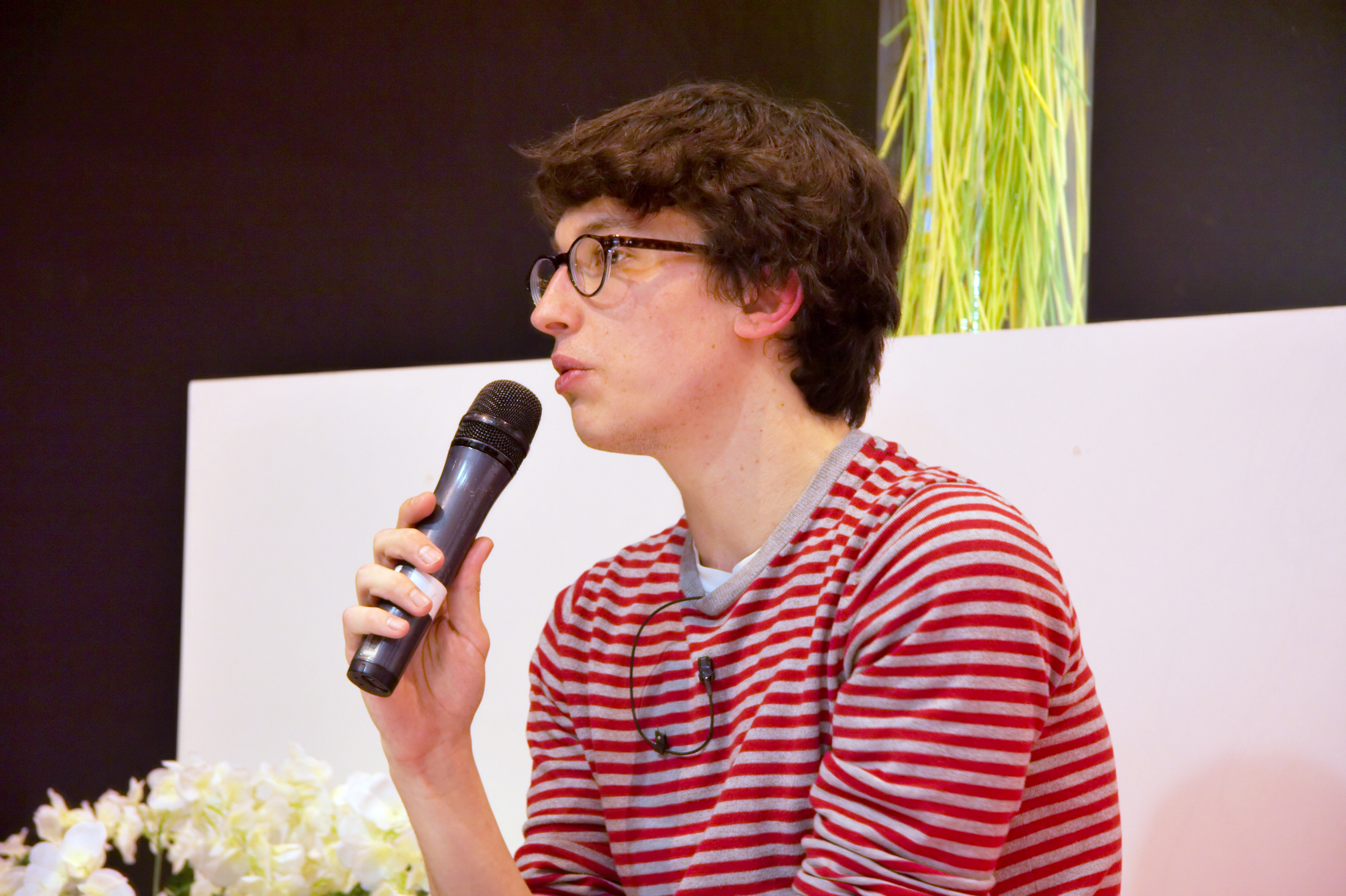 Interview with Bastien Vivès at Salon du livre 2009 (Paris, France)